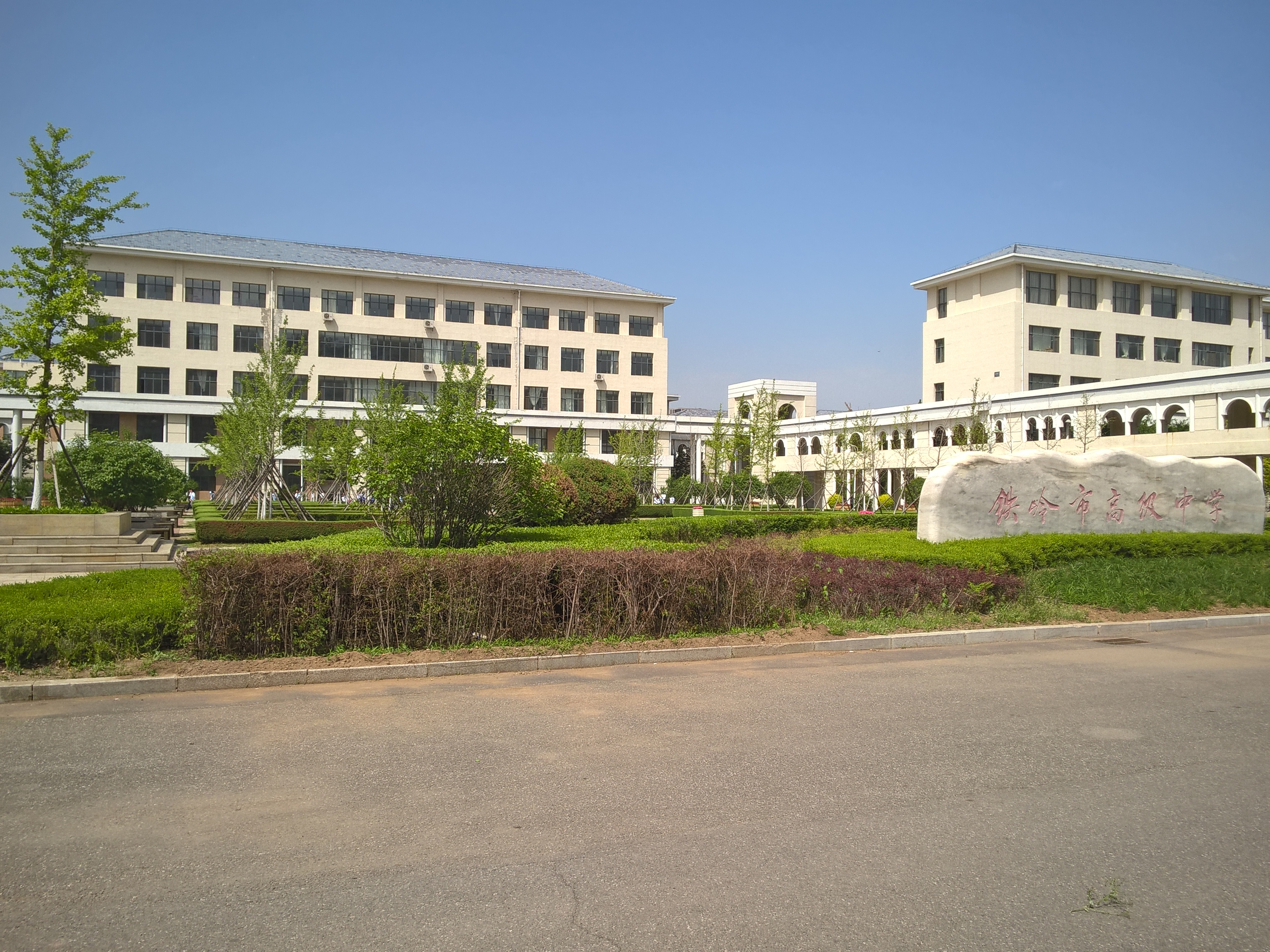 The school migrated from the old campus in Yinzhou District,Tieling City to its new campus in Fanhe Town,Tieling in 2011.